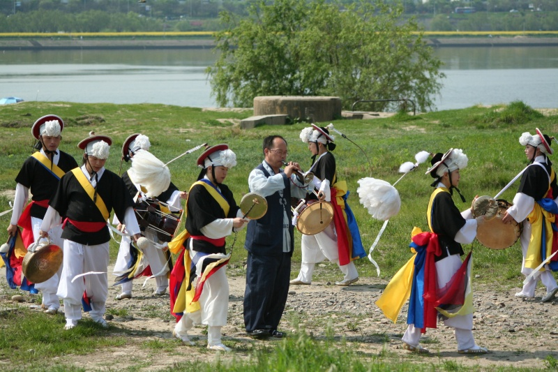 Nongak performace, farmer's dance